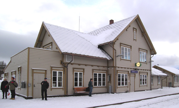 Tynset railway station, Rørosbanen. Built 1877.